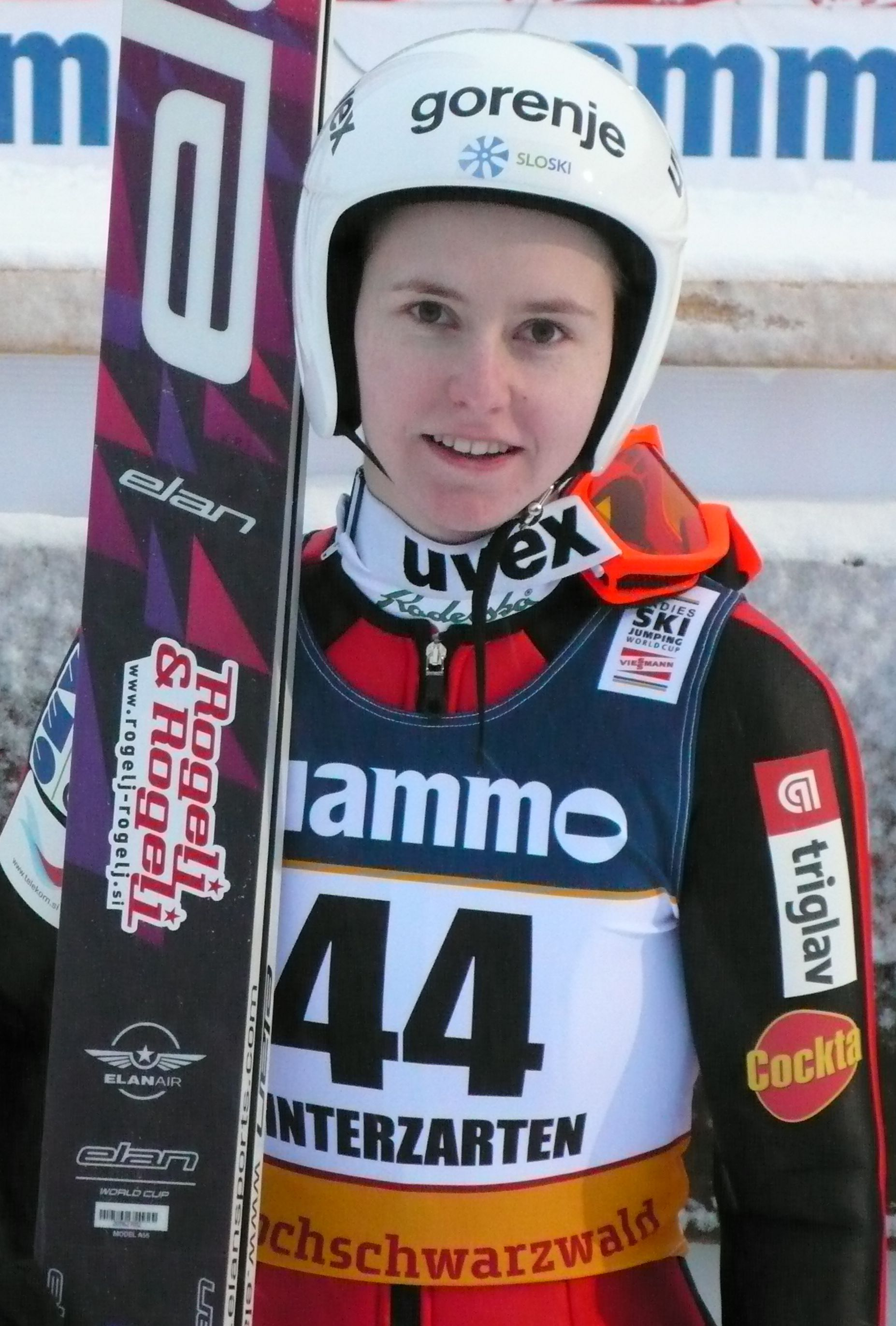 Katja Požun, at the Ski jumping Worldcup in Hinterzarten on the 2012-01-07.